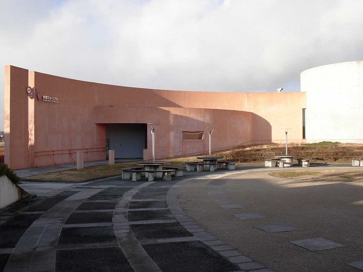 the exterior of "Kankaku(Senses) Museum" in Osaki city, Miyagi Prefecture, Japan